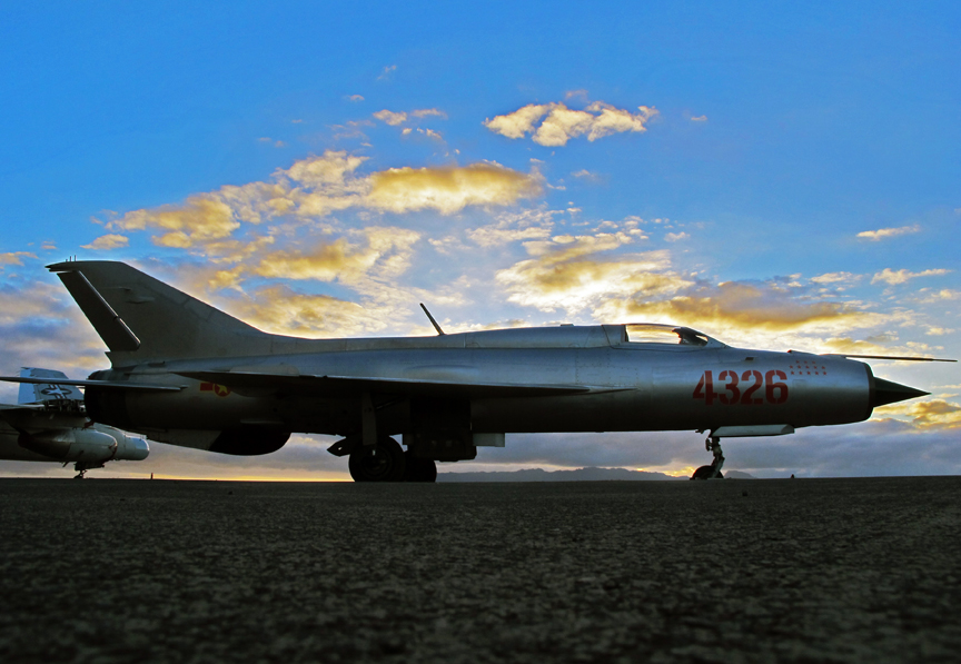 SolsticeMiGsmall